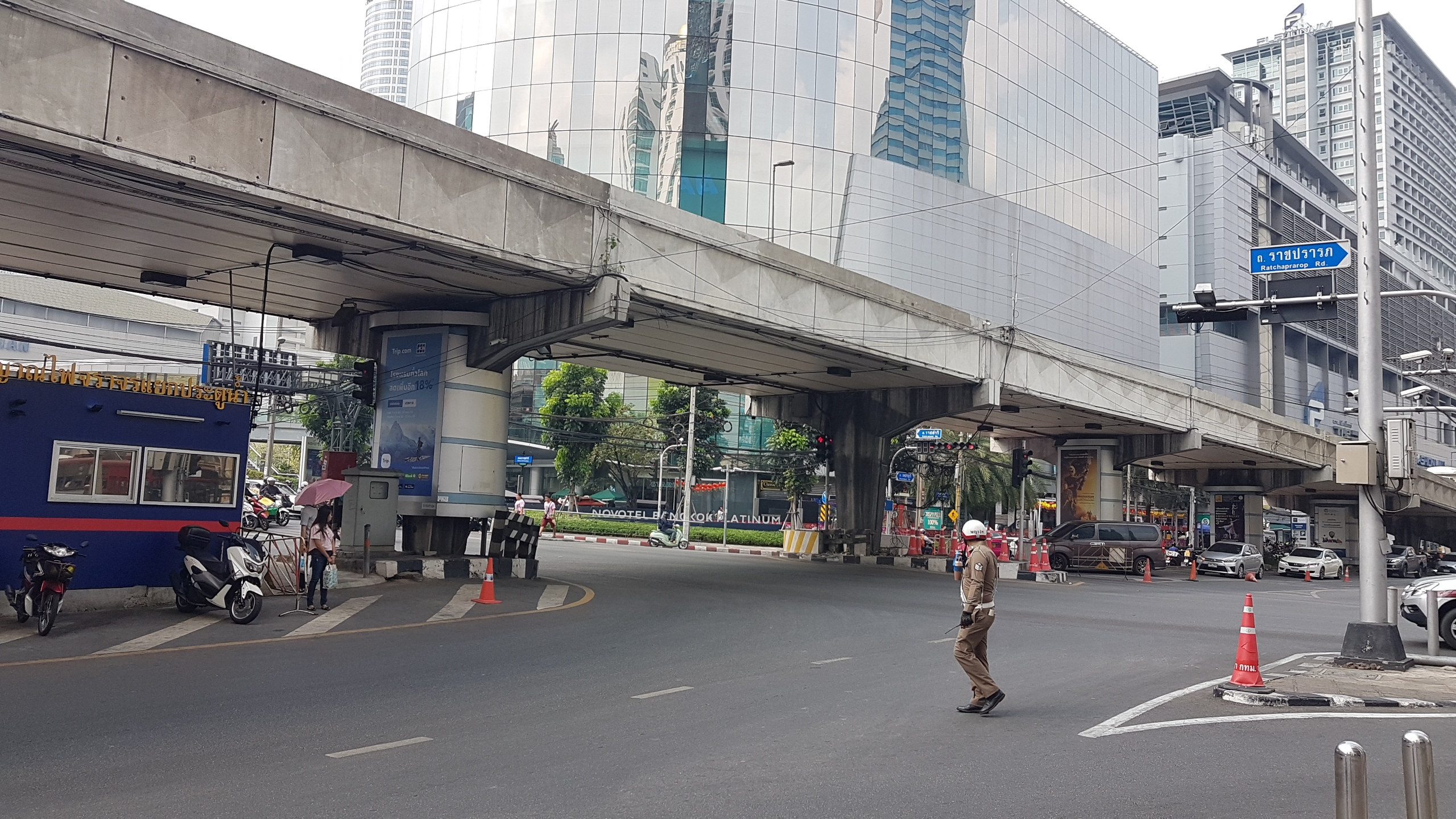 intersection